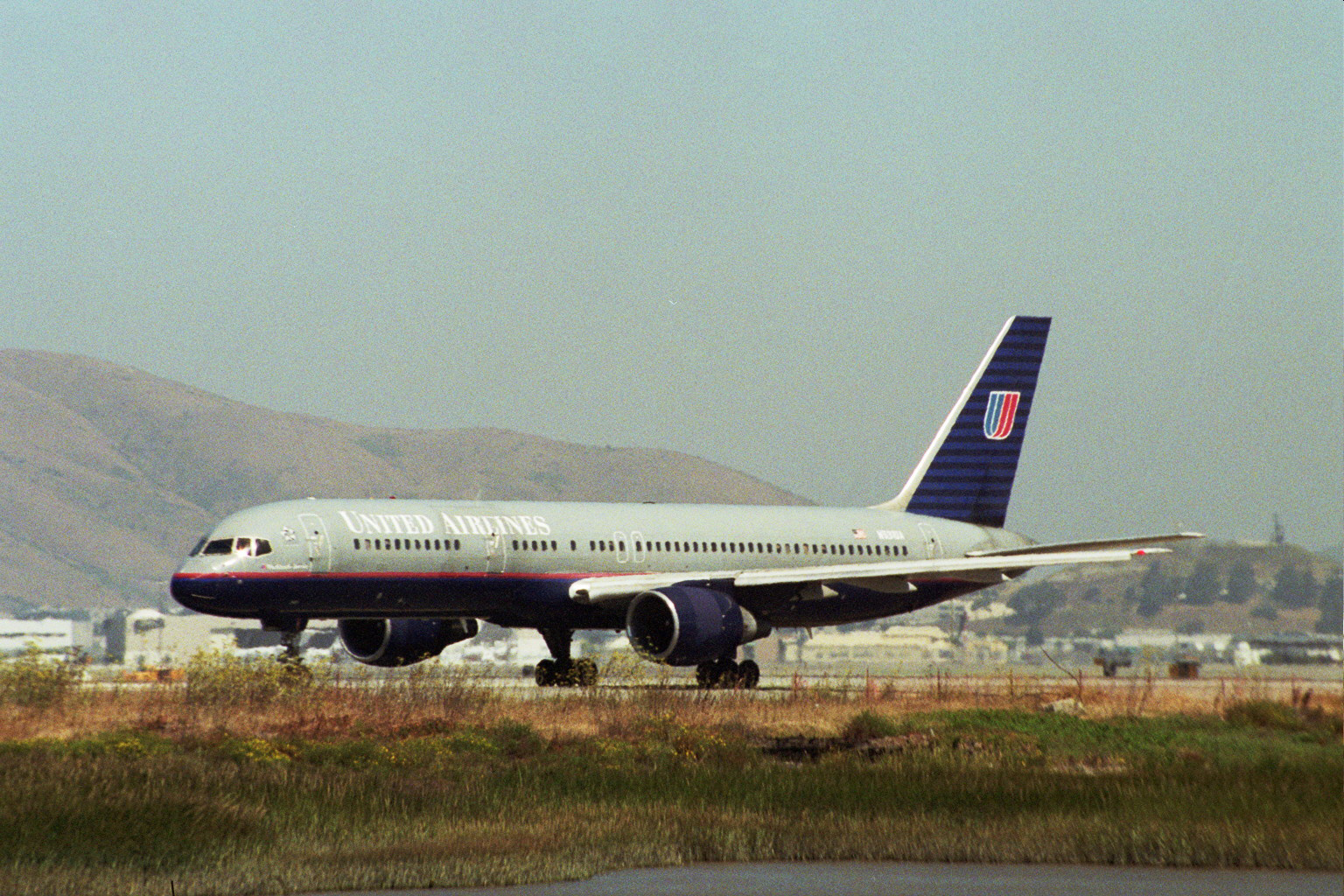 A United Airlines Boeing 757 jet